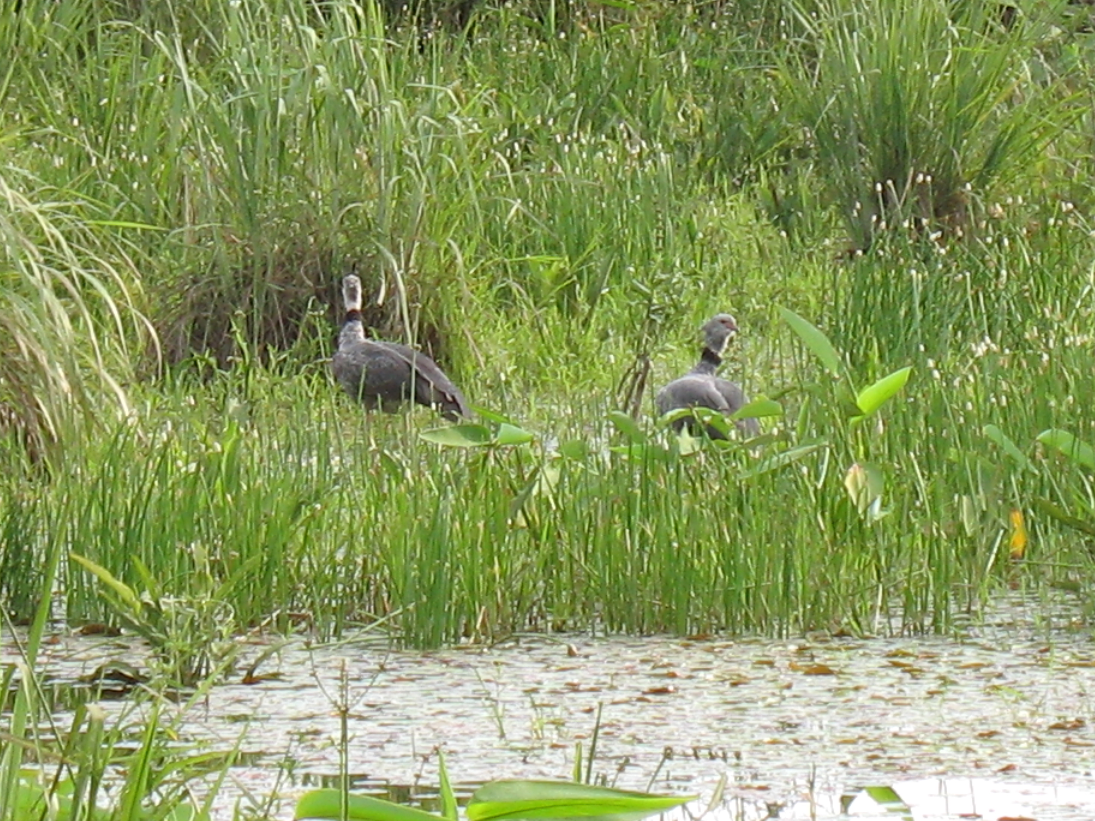 Southern Screamer (Chauna torquata) in the Pantanal region, Brazil.